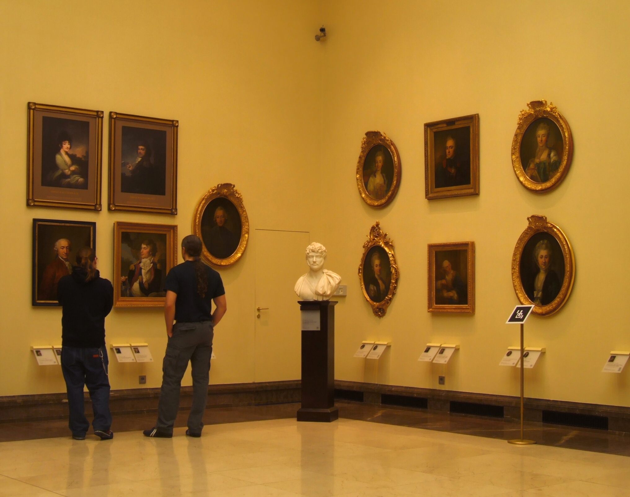 Sukiennice Gallery - Bacciarelli Room